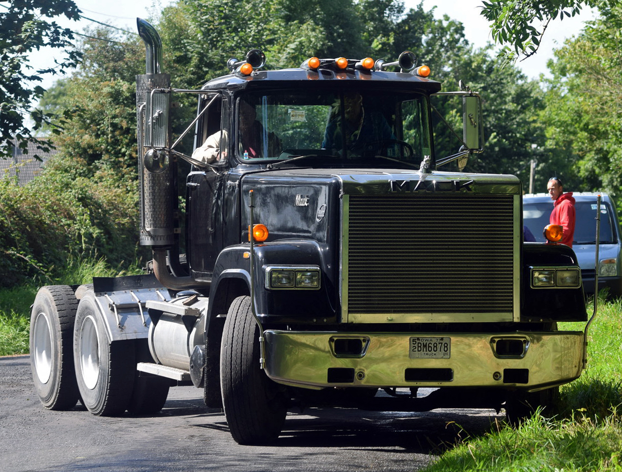 1977 Mack Super-Liner at the 4th Annual Edward Cosgrave Memorial Charity Fundraiser and Tractor Run 2014 in Longwood, Co. Meath, Ireland on Sunday 17th August 2014.